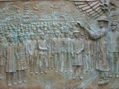 The plate in Pagoda park in Seoul - the memorial tablet for March 1st Movement in Pagoda park, Seoul